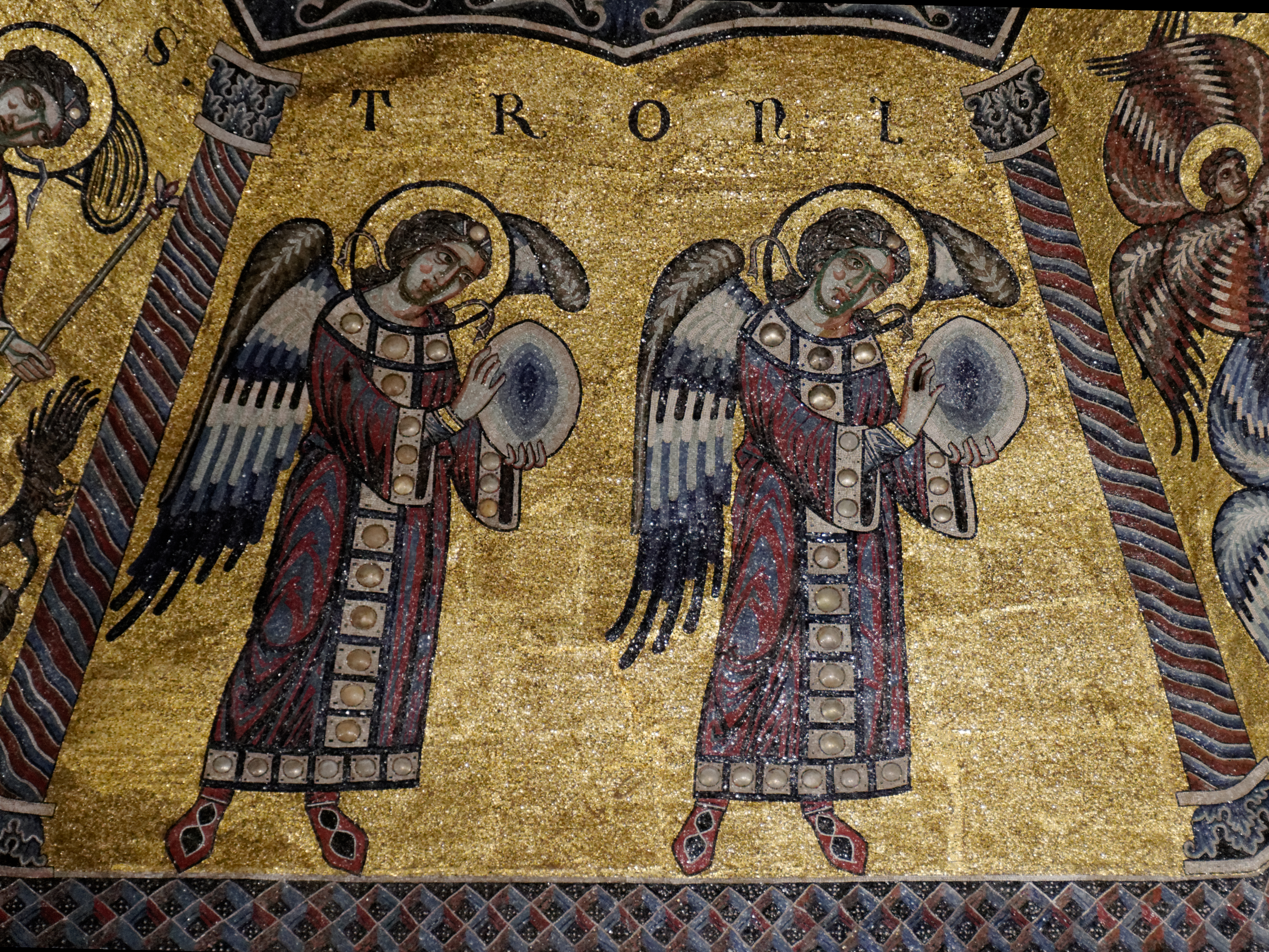 Mosaic ceiling: angelic hierarchy: the thrones.